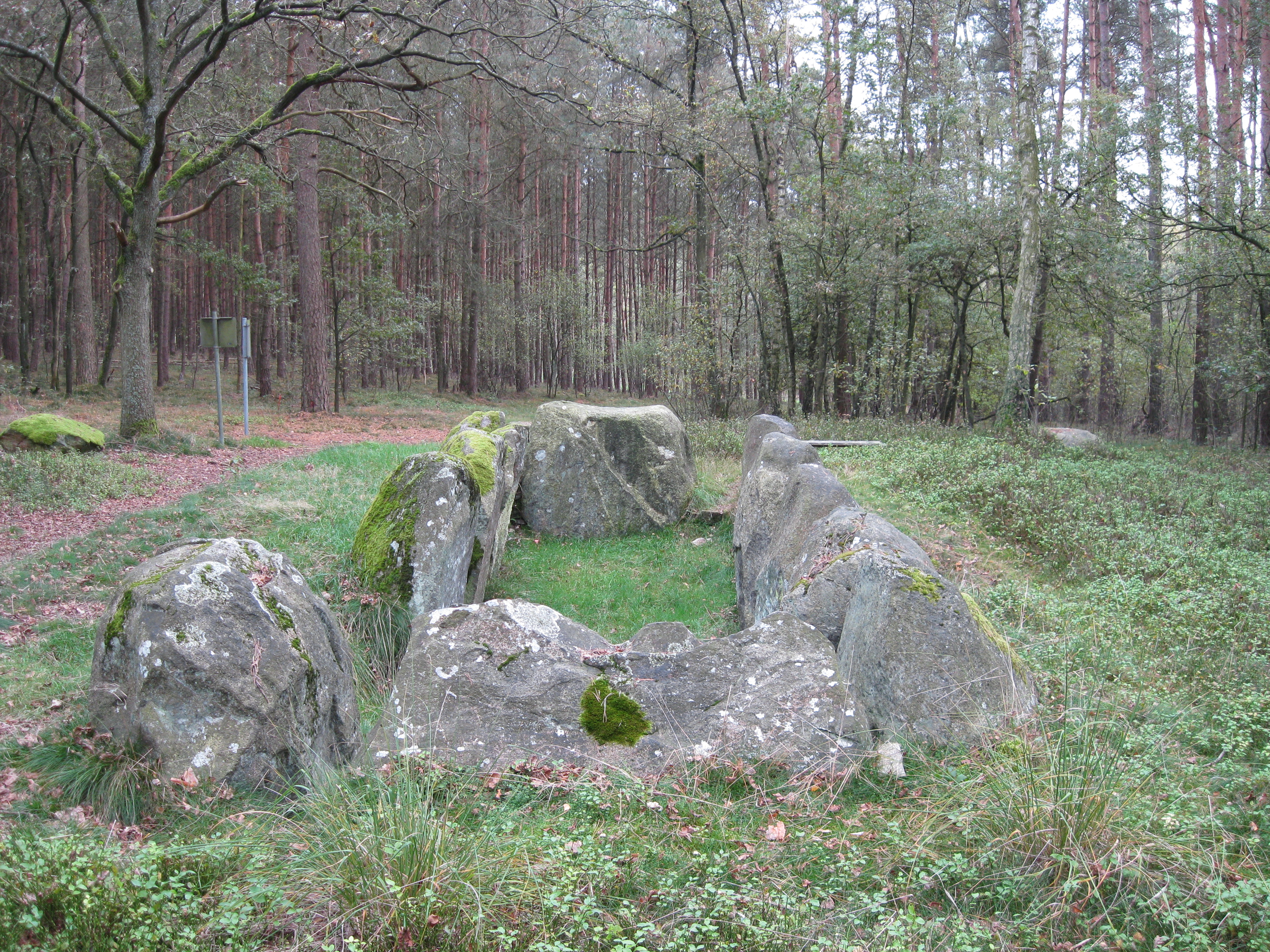 Krelingen, Germany